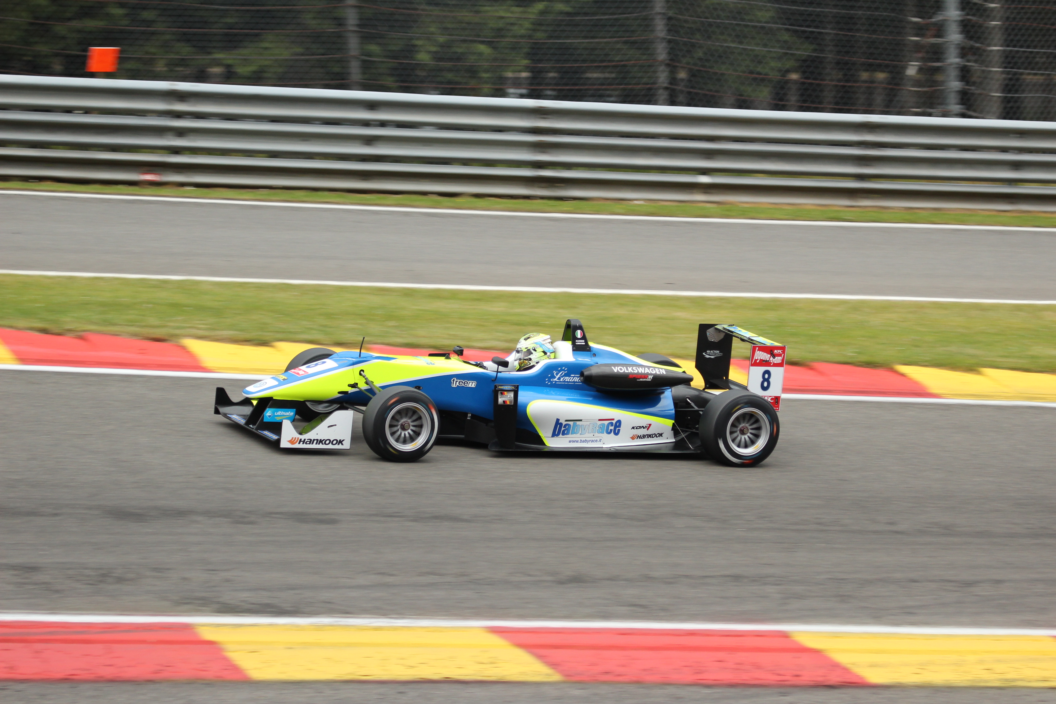 Alessio Lorandi at Spa in 2015, European Formula 3 Championship